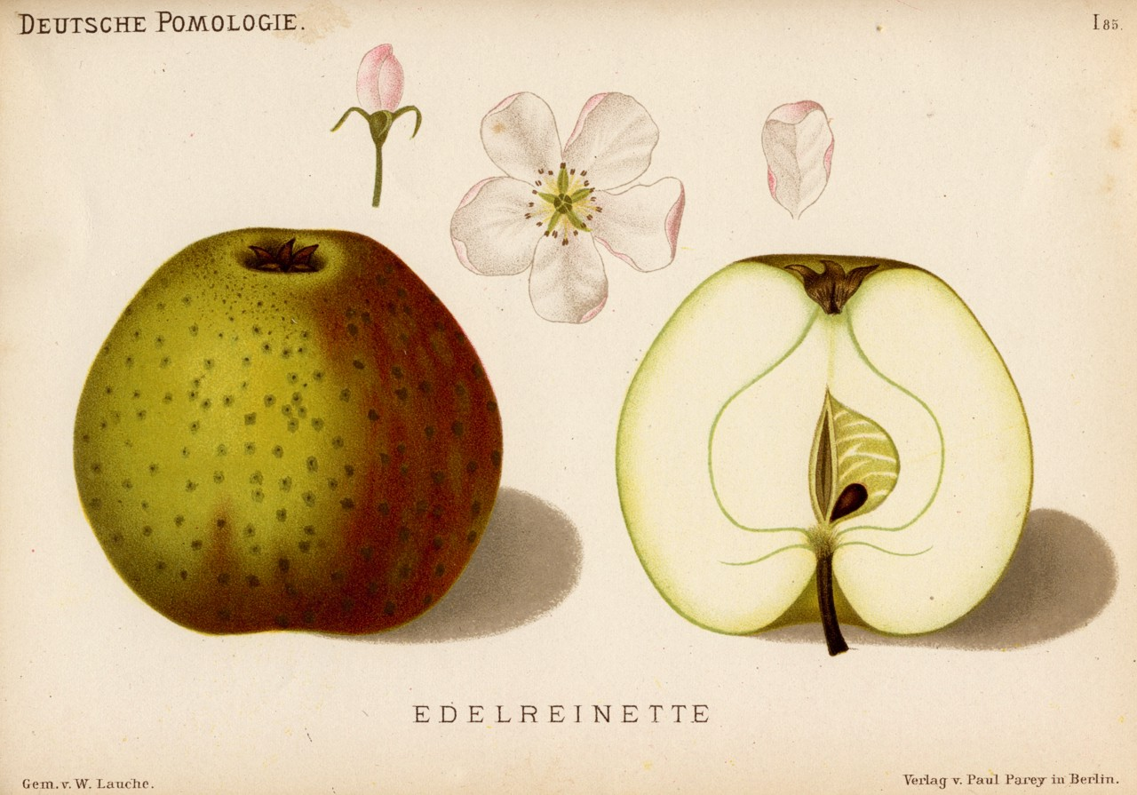 Illustration 85 from Deutsche Pomologie - Aepfel Apple cultivar shown: Edelreinette